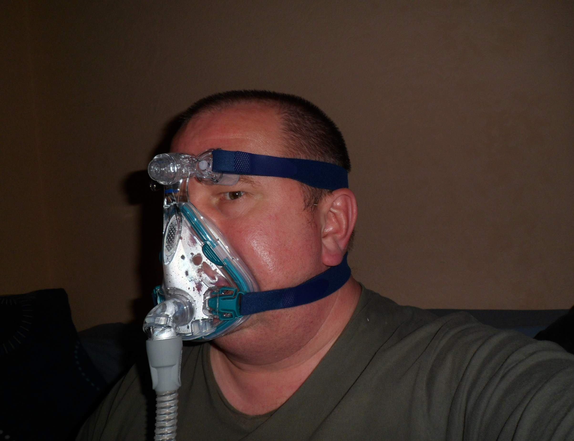 Full face mask Mirage Quatro (producer: ResMed for using during sleep with CPAP machine, for treatment of obstructive chronic sleep apnea, used by autor of this image (image made from own hand)